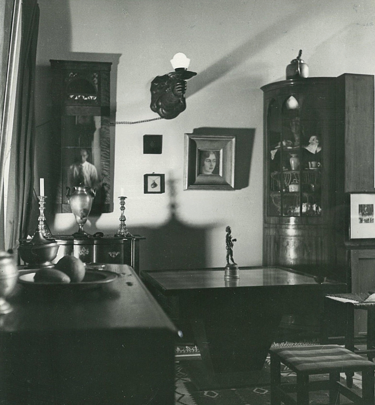 The artist Gustav Hilbert's atelier 1928 in Berlin, Germany.